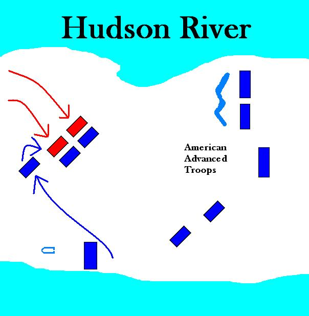 Map of the Battle of Harlem Heights. Blue is American, Red is British. Light blue are the American defences. West is up.